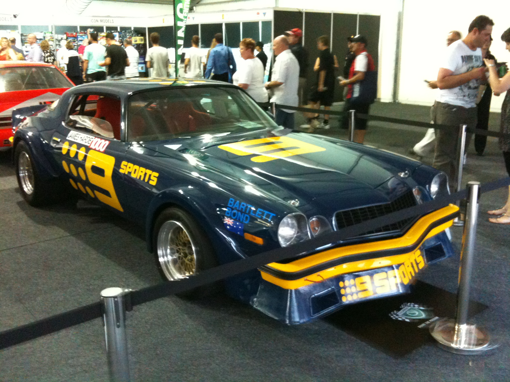 Chevrolet Camaro Group C. This is the car driven by Kevin Bartlett and sponsored by the Channel Nine Network. Bartlett was supposed to share the car in the 1979 James Hardie 1000 with Bob Forbes, but was injured prior to the event so the car was driven by John McCormack instead. They did not finish the race due to mechanical issues. In 1980 Bartlett finished second in the Australian Touring Car Championship in the car. The car was on Pole Position for the 1980 and 1981 James Hardie 1000 races shared with Bob Forbes and finished 11th and 13th respectively. In the cars most recognised outing Bartlett shared the car in the 1982 event with Colin Bond. The car exited the race in spectacular fashion after a rear tyre blew at Reid Park and the car flipped before sliding to a halt on it's roof, earning it the nickname of the Channel 6 Camaro. Taken at the Top Gear Live show at Acer Arena, in the Olympic Precinct at Homebush in Sydney.